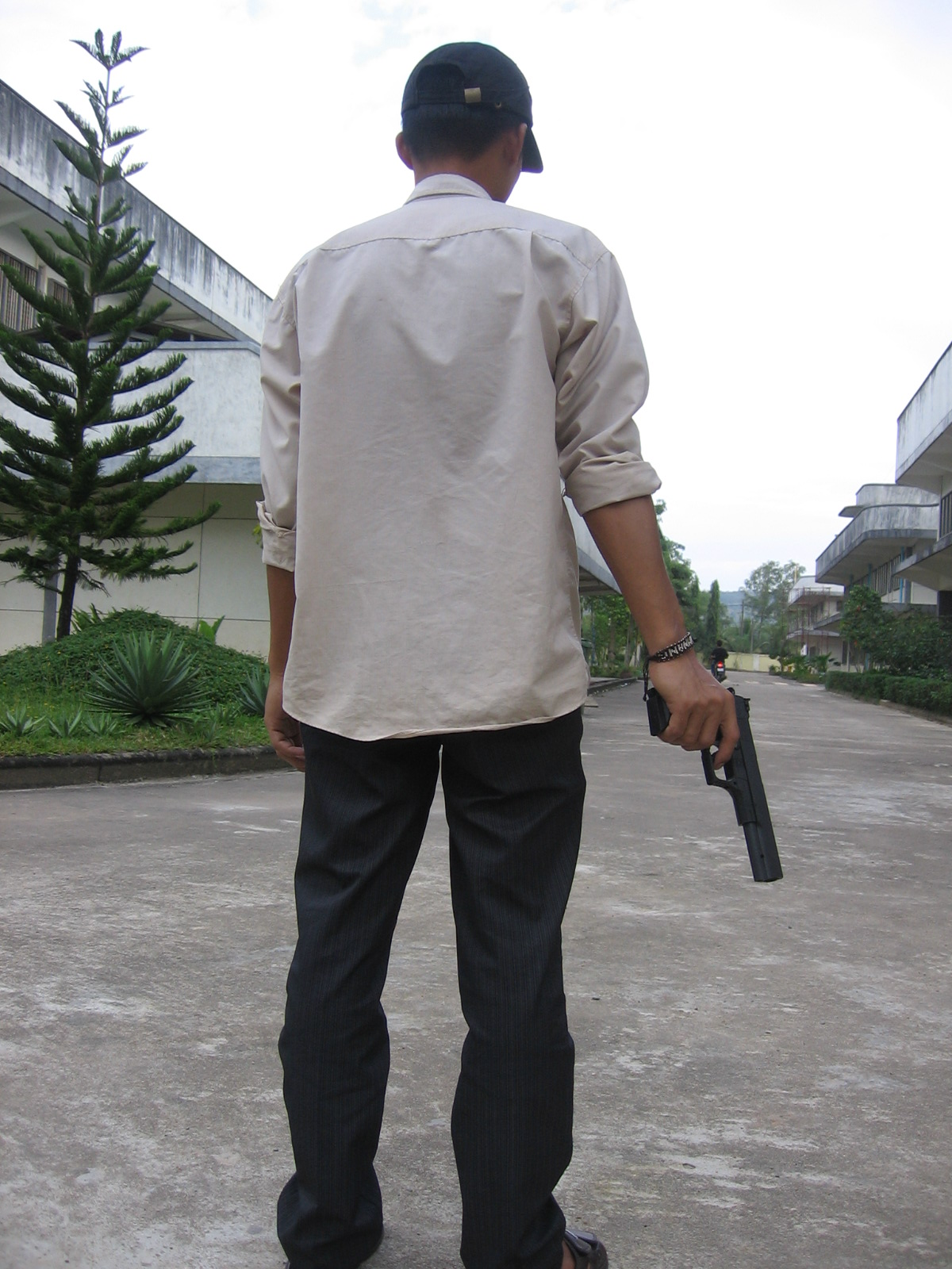 Model representation of Latin American young hired killers (sicarios).